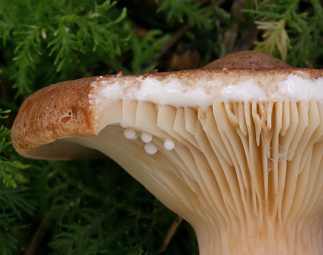 Rufous Milkcap (Lactarius rufus)